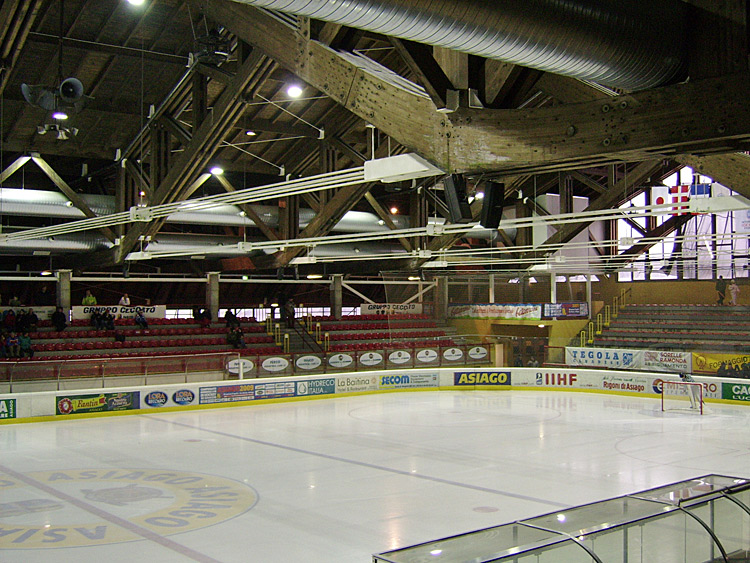 Pala Hodegart (Asiago Hockey arena)